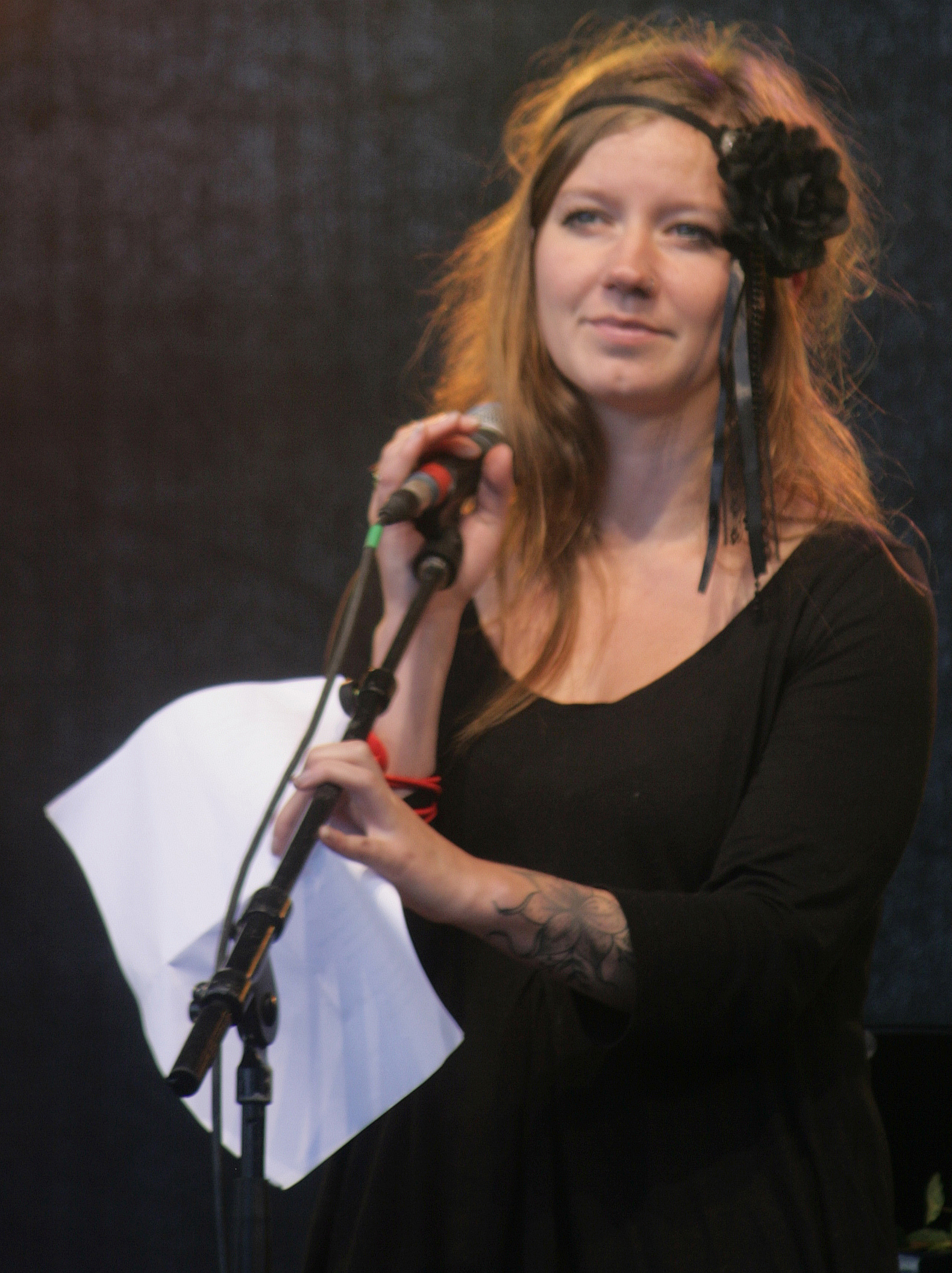 Norwegian singer Maria Solheim on the ‘Rose march’ tribute to the victims of the 2011 terror attacks in Norway